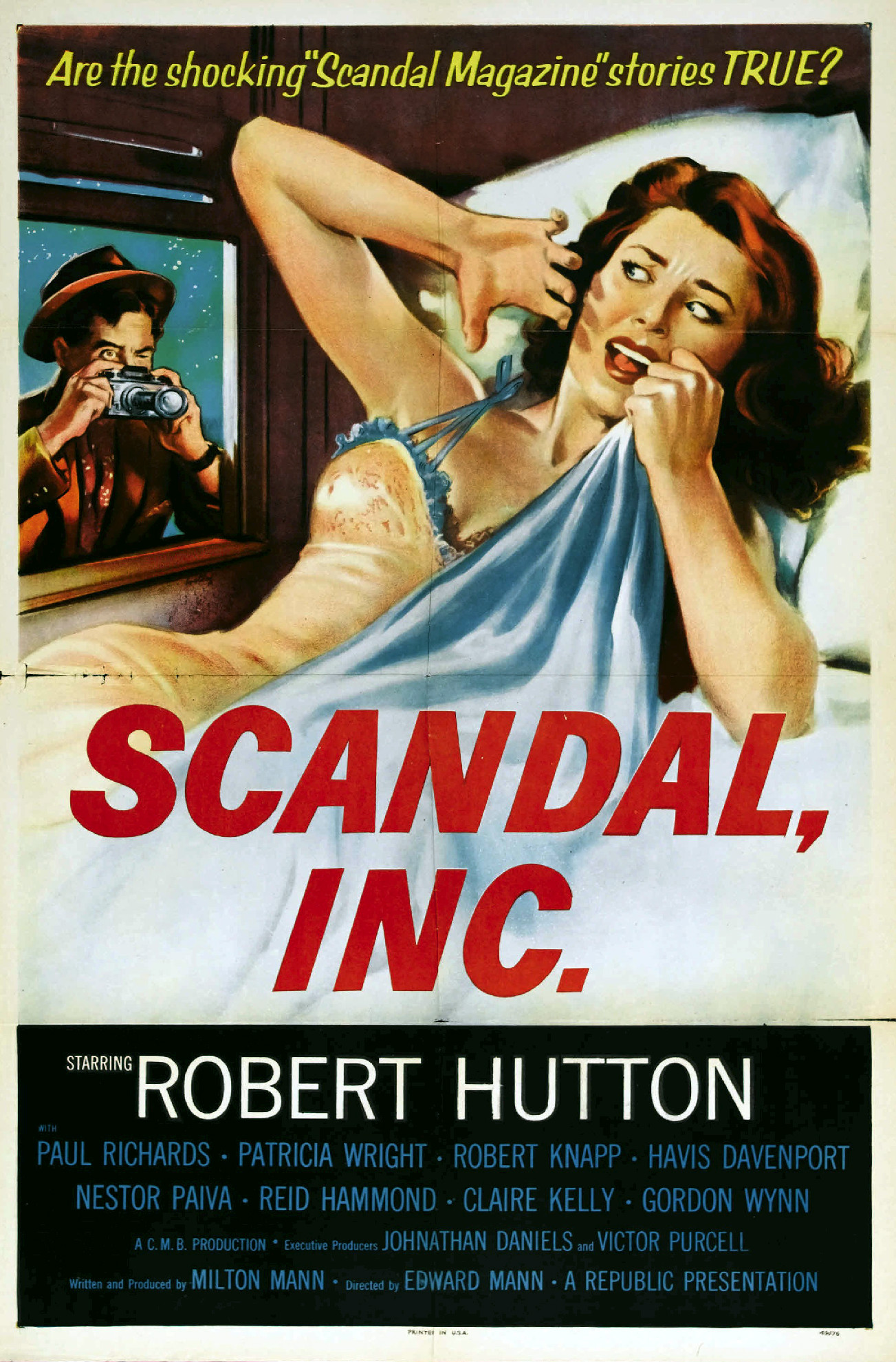 Poster for the 1956 film Scandal Inc.. There are no copyright marks. At bottom is printed in USA and 49476.